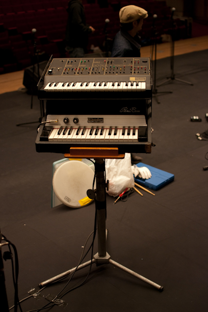 YMO Tribute Vol.4 Arp Odyssey type2 Rodes Piano Bass